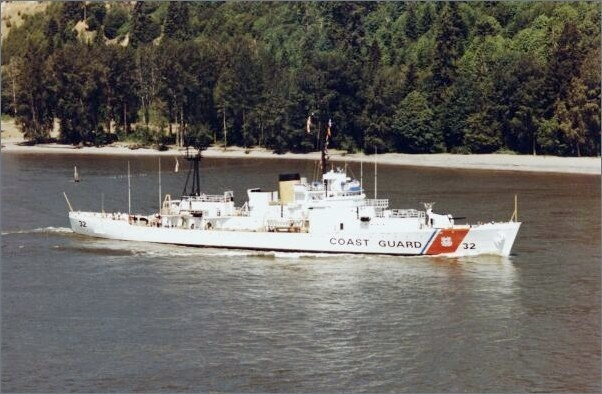 The U.S. Coast Guard cutter USCGC Campbell (WHEC-32) underway in 1982.